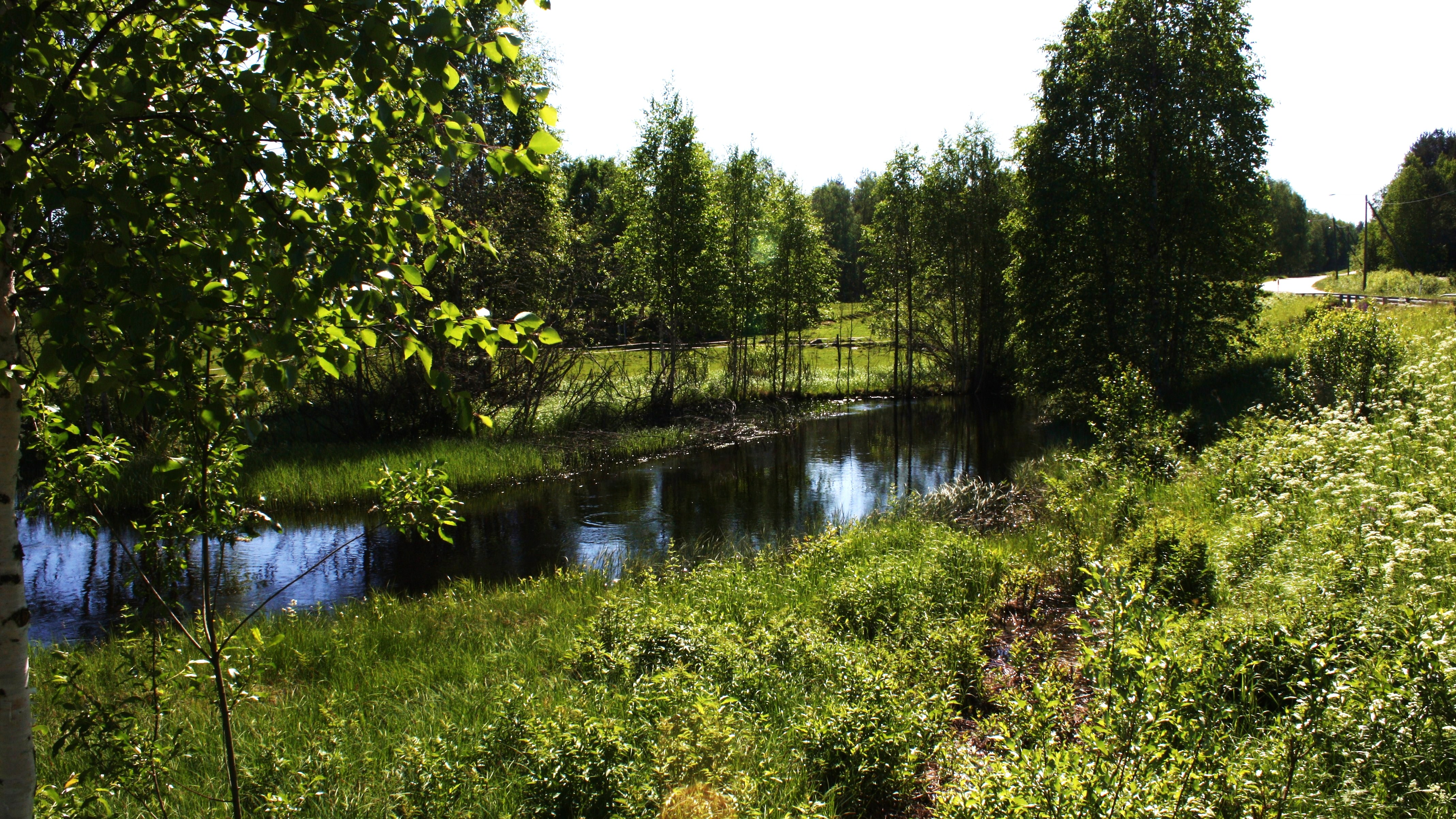 Sivakkajoki River is a 5,7 km long river, which is located in municipality of Kaavi, province of Northern Savonia. The waters of Sivakkajoki River flows from Lake Sivakkajärvi to Lake Suuri-Kortteinen.